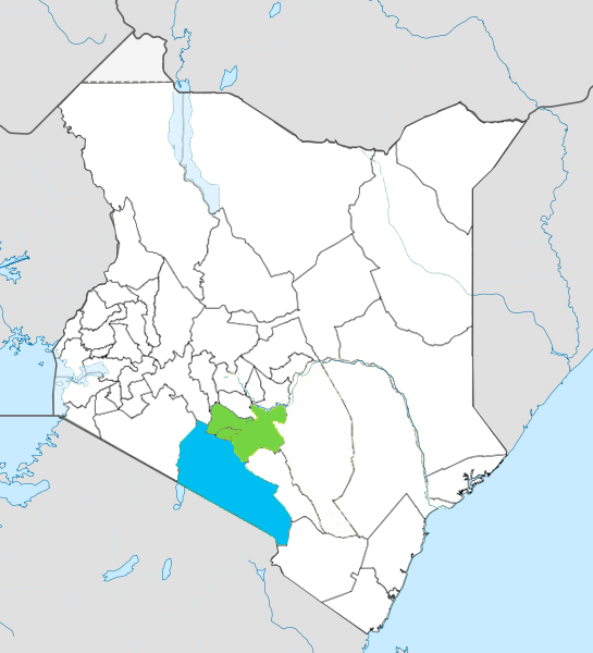 Kajiado County in Nairobi Metro Kiswahili: Kaunti ya Kajiado kwenye Nairobi Metro